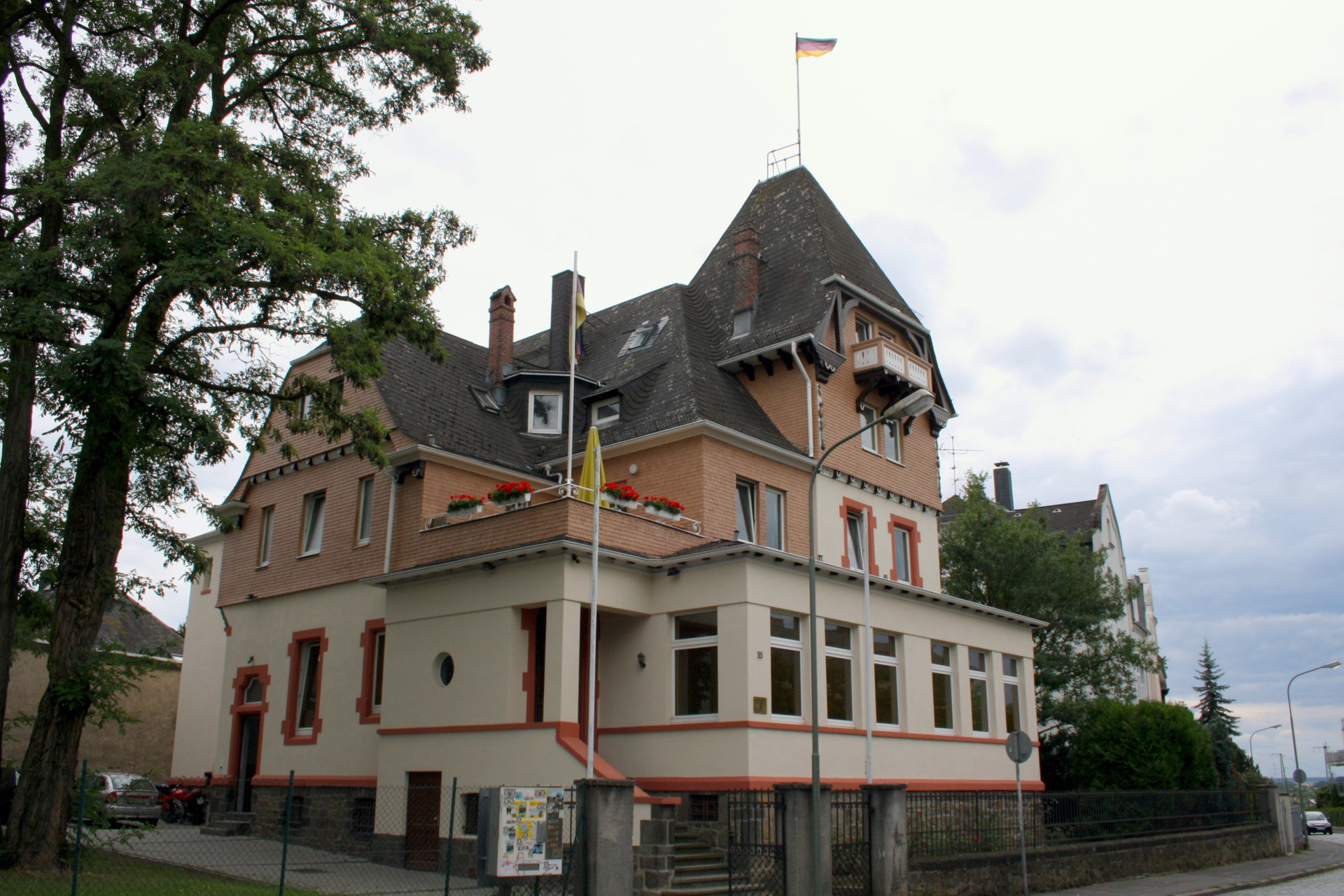 House of Burschenschaft Germania in Gießen / Hesse / Germany, street view